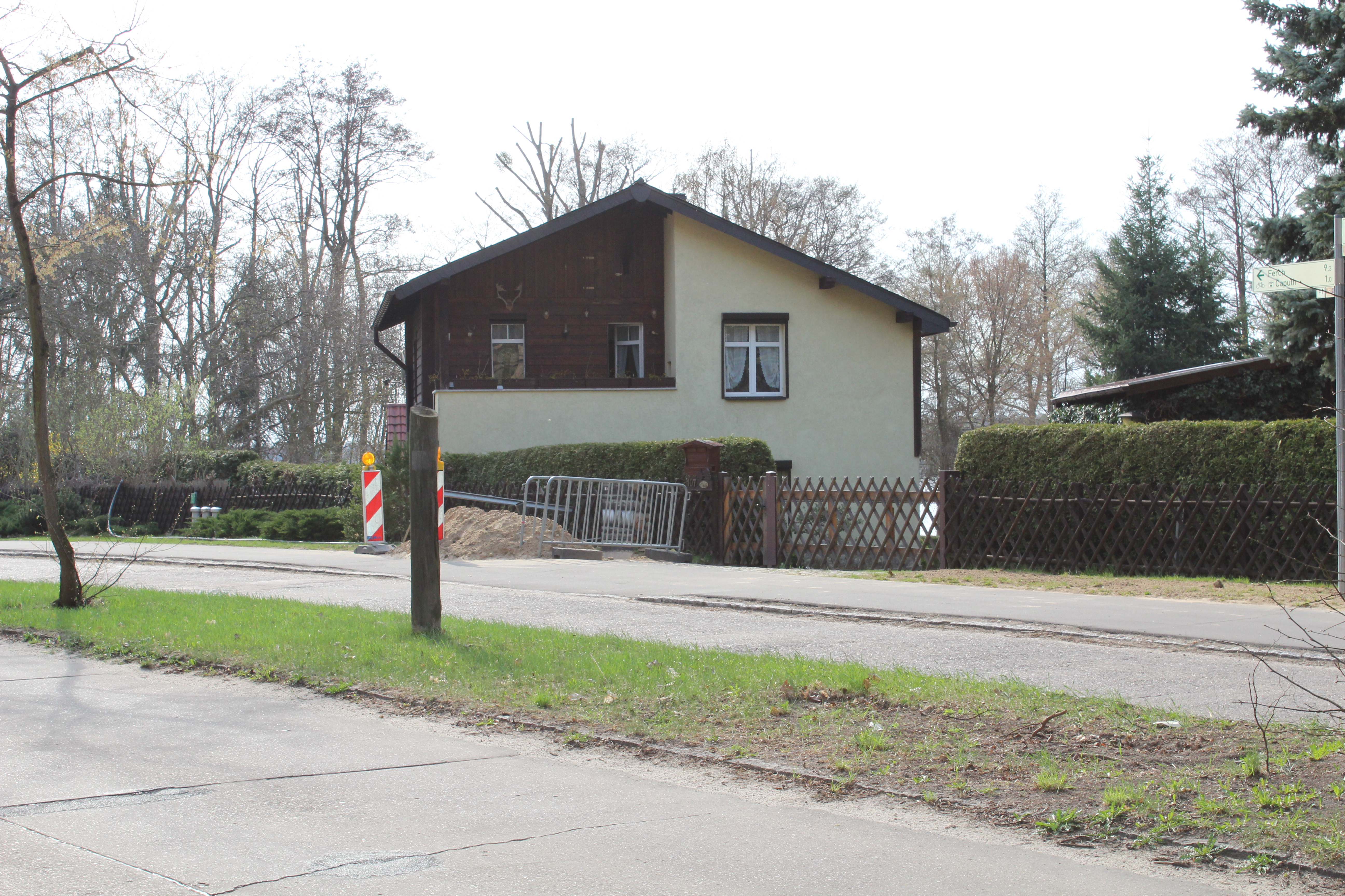 The original forester’s lodge in Templin, Potsdam (Germany); not the restaurant of the same name (“Forsthaus Templin”) that is nowadays the Braumanufaktur Potsdam and is located on opposite side cross the road.